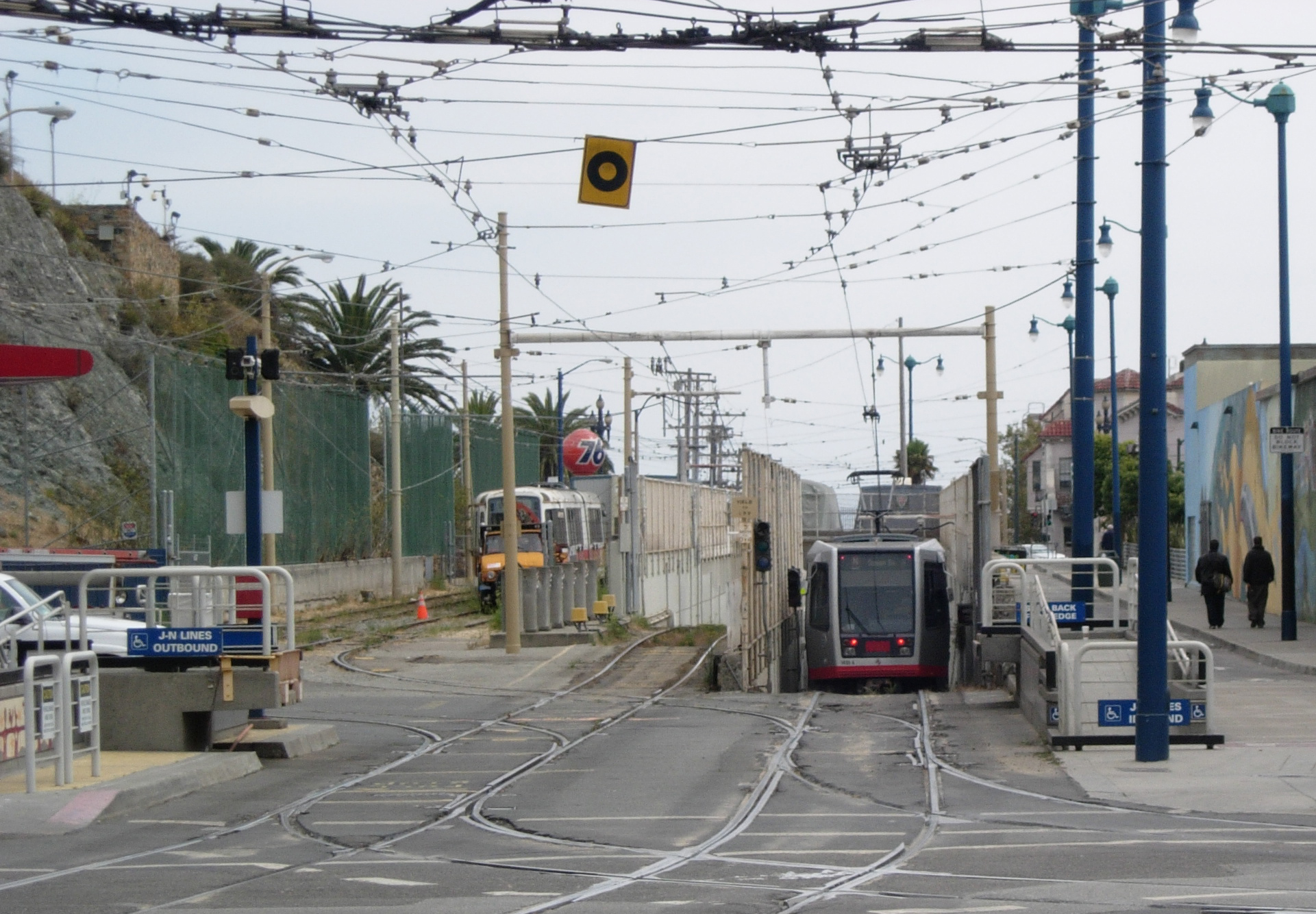 The exit from the Market Street Subway used by the N Judah and J Church lines. The exit is located at Duboce and Church streets in San Francisco, California. The car entering the tunnel is an inbound N Judah. To the left there is a streetcar of the older type used by Muni Metro.